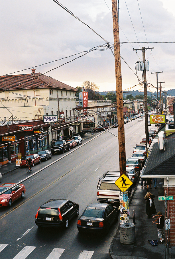 Photographer: Kyle Burris from Portland, OR, United States Title: This is Hawthorne Description: Hawthorne SE around 37th/38th. ja:??:Hawthorne st.jpg